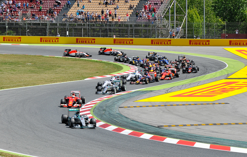 The Start of the 2015 Spanish Grand Prix